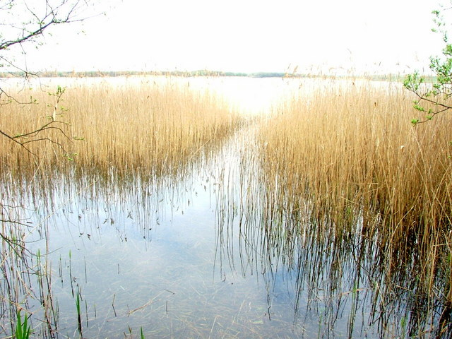 Kenfig Pool, Kenfig National Nature Reserve. Glamorgan’s largest natural lake, Kenfig Pool, is set on the edge of this beautiful area of Sand Dunes.